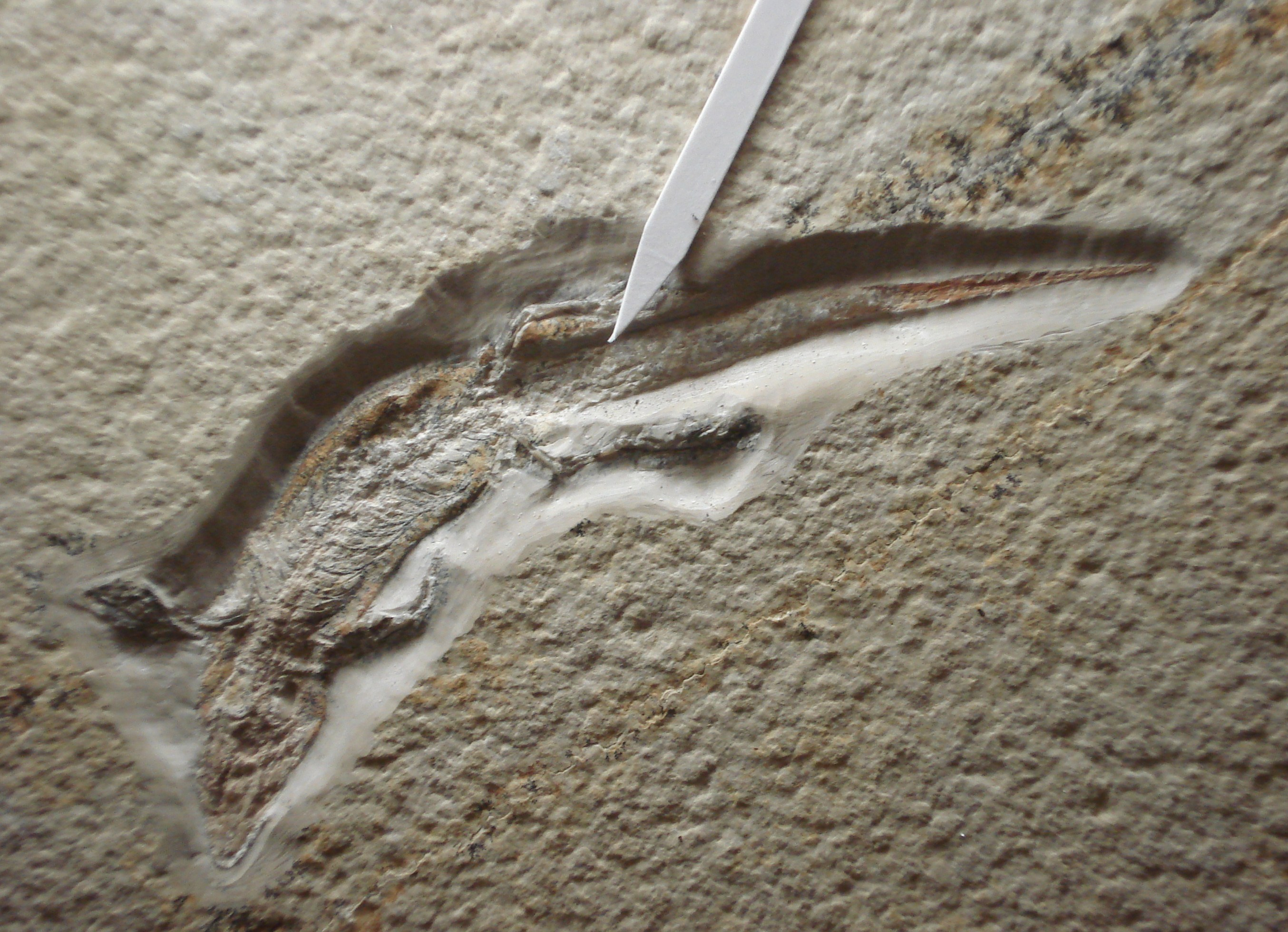 fossil of ardeosaurus